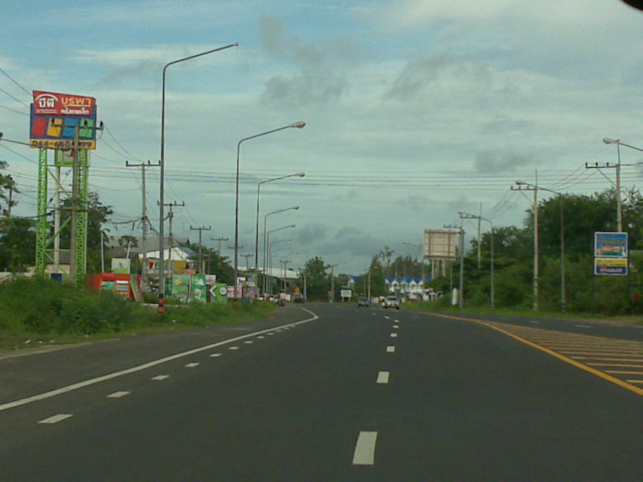 Highway 226 in Lam Plai Mas